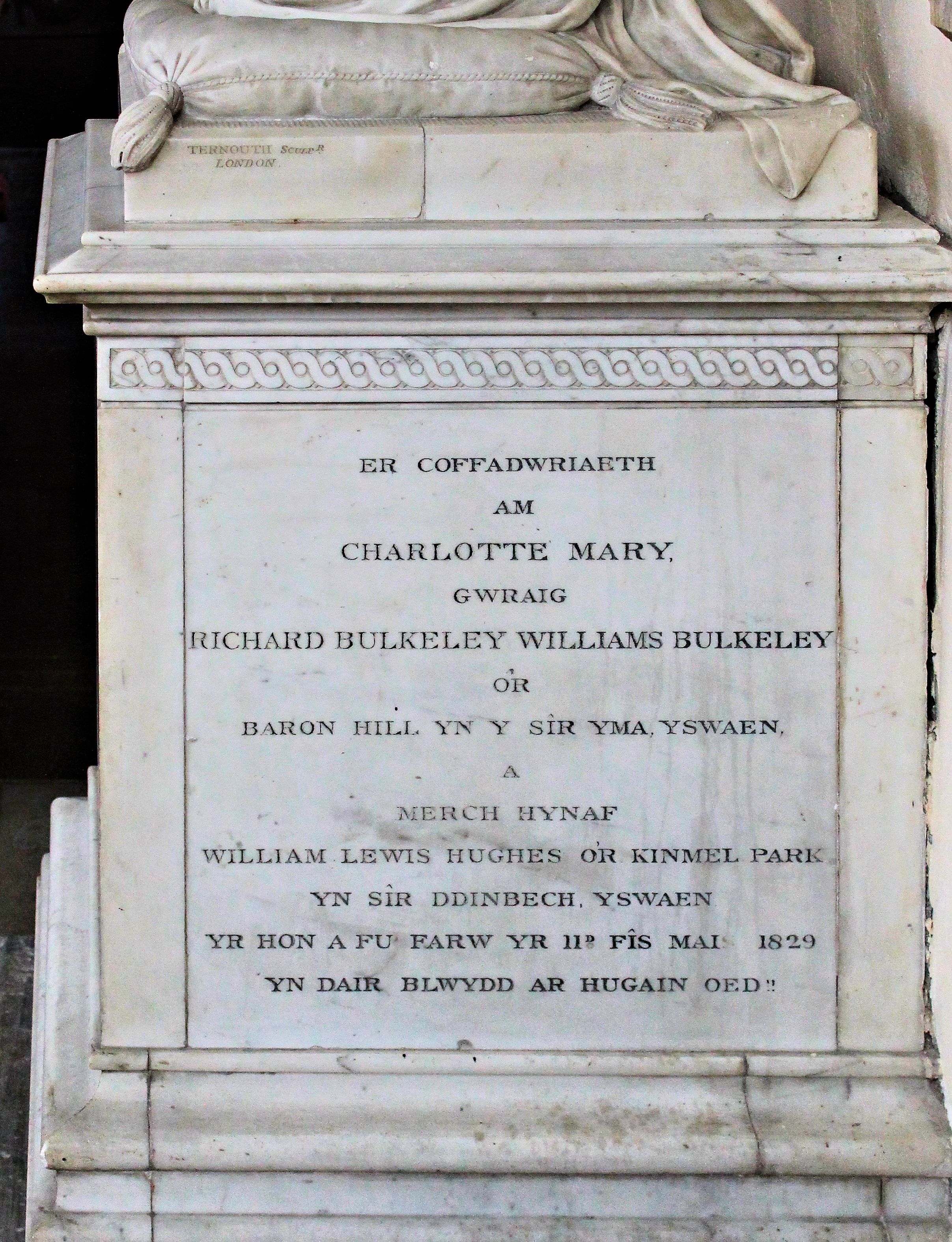 Charlotte Williams Bulkeley Memorial. This free-standing sculpture, also situated in the chancel, is by John Ternouth (c1796-1848) of London (best known for his bronze relief depicting a scene from The Battle of Copenhagen on the plinth of Nelson’s Column in London). The base of this sculpture bears the following inscription (also in Welsh): Sacred to the memory of Charlotte Mary the wife of Richard Bulkeley Williams Bulkeley of Baron Hill in this county, Esquire and eldest daughter of William Lewis Hughes of Kinmel Park in the county of Denbigh, Esquire Obt. May 11th 1829, aged 23 years!! Church of St Mary and St Nicholas, Beaumaris, North Wales. Grade: I; Date Listed: 23 September 1950; Cadw Building ID: 5620.